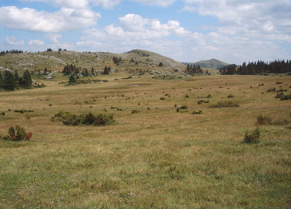 Jadovnik mountain,Prijepolje municipality,Serbia.